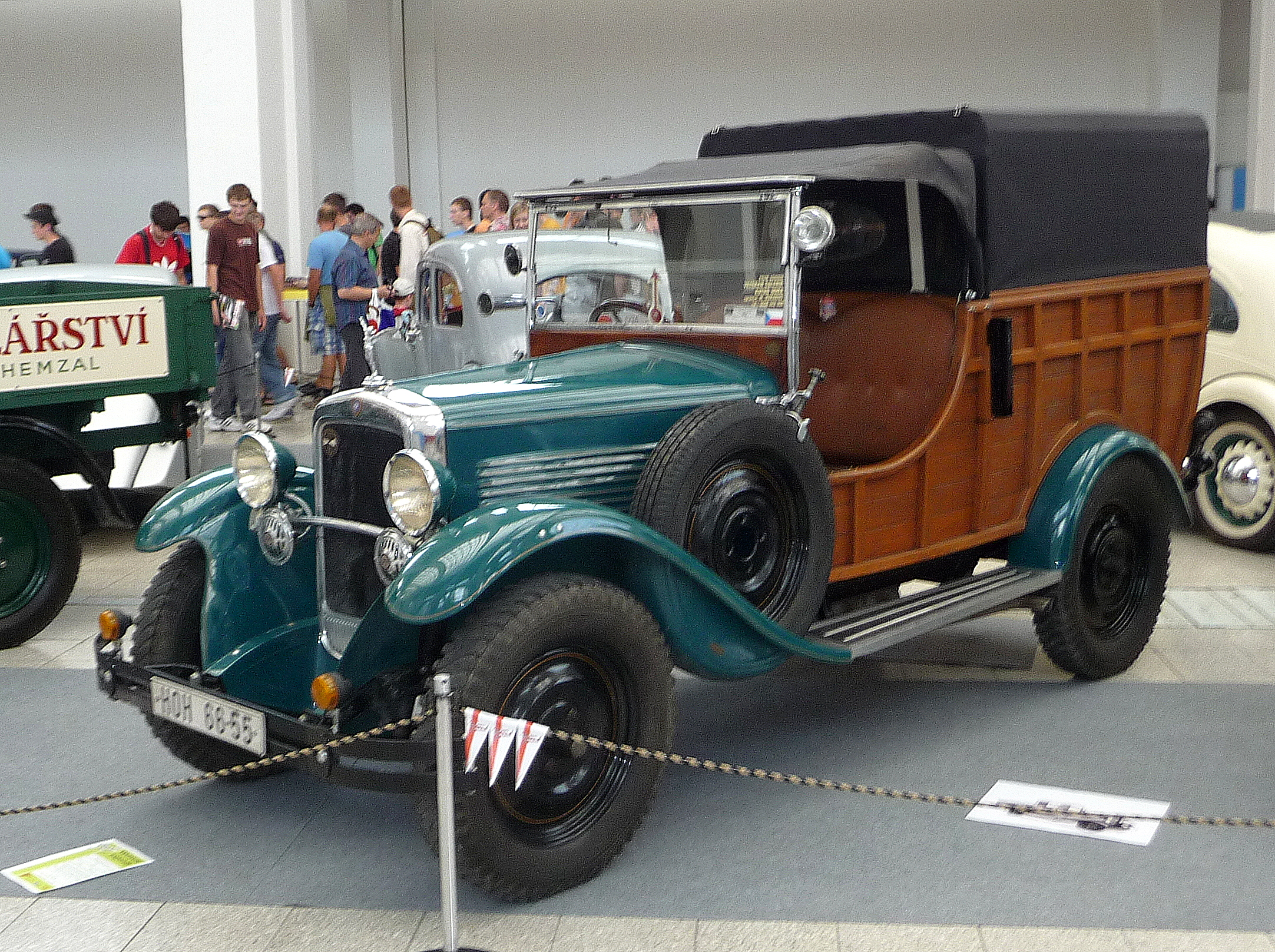 Zbrojovka Z 9, year 1932, Classic Show Brno 2011, The Brno Exhibition Grounds -10 -5 -3 -2 ◄ ► +2 +3 +5 +10